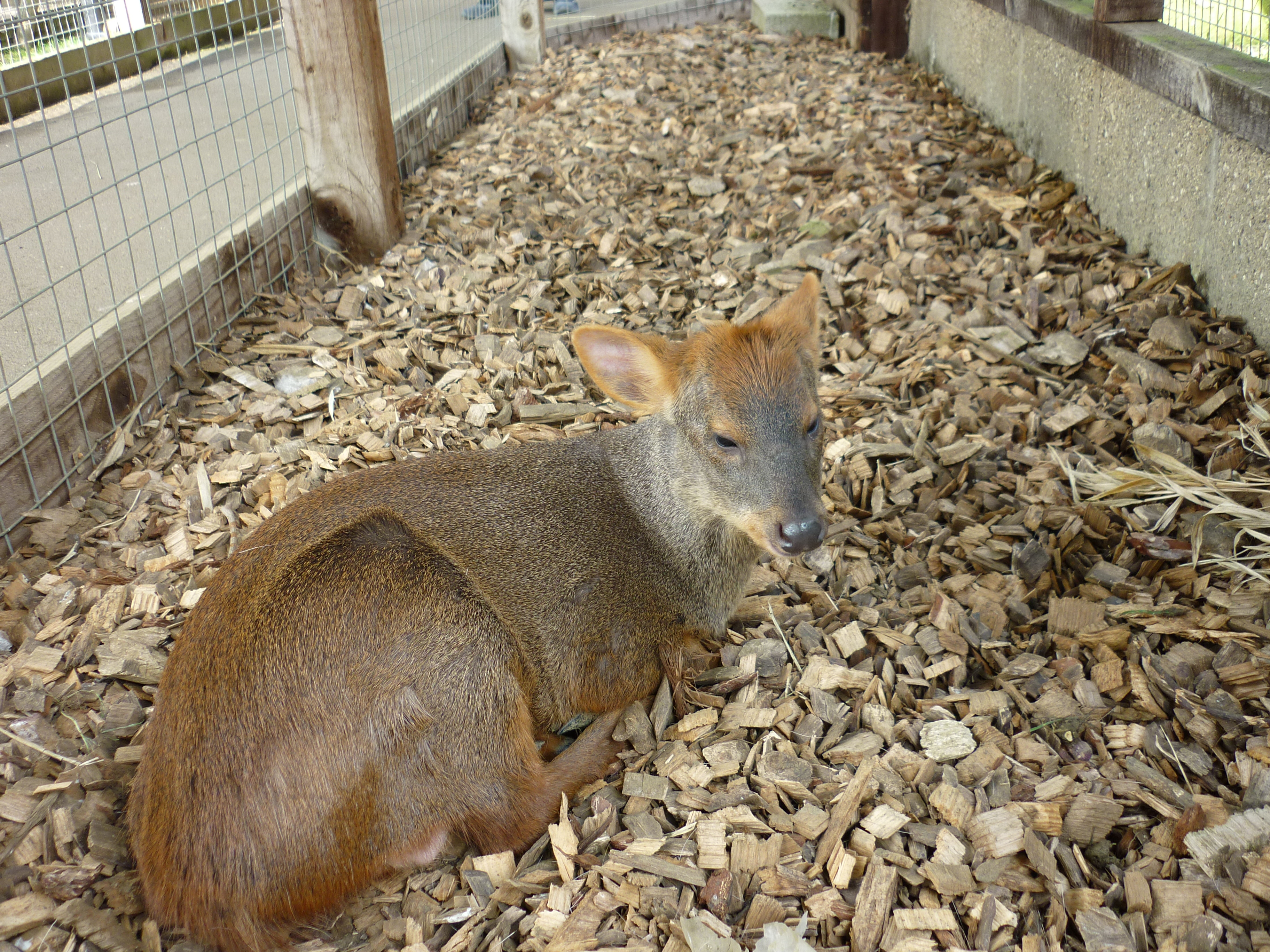 Pudu puda